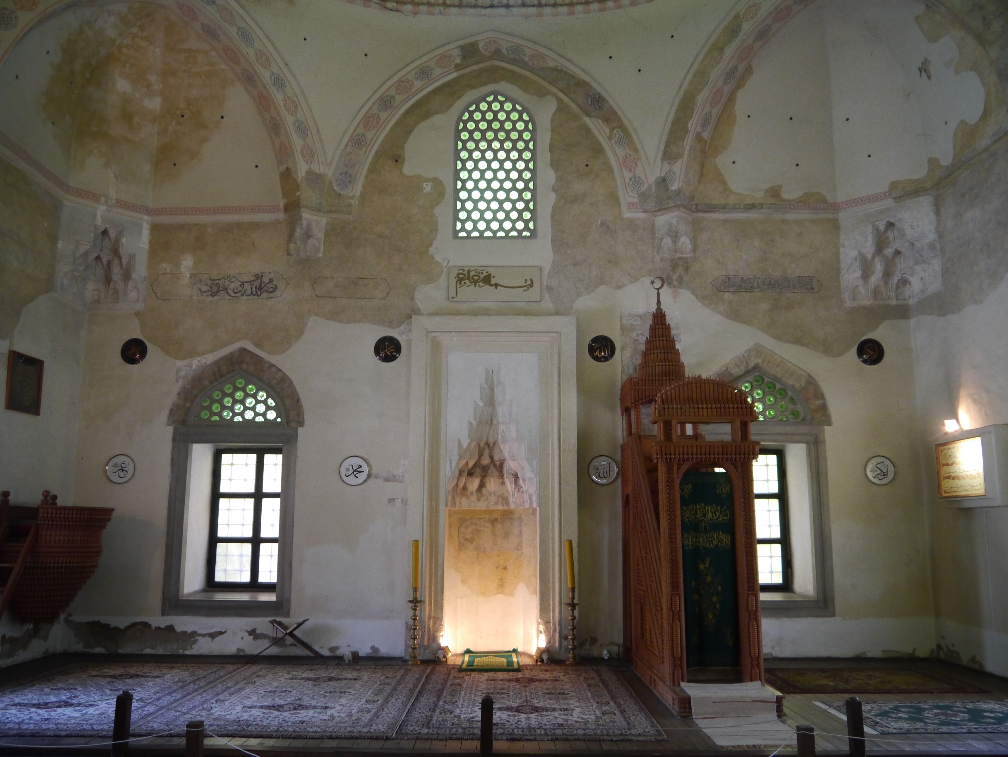 Prayer hall of the Ottoman Mosque, Pécs, Southern Hungary